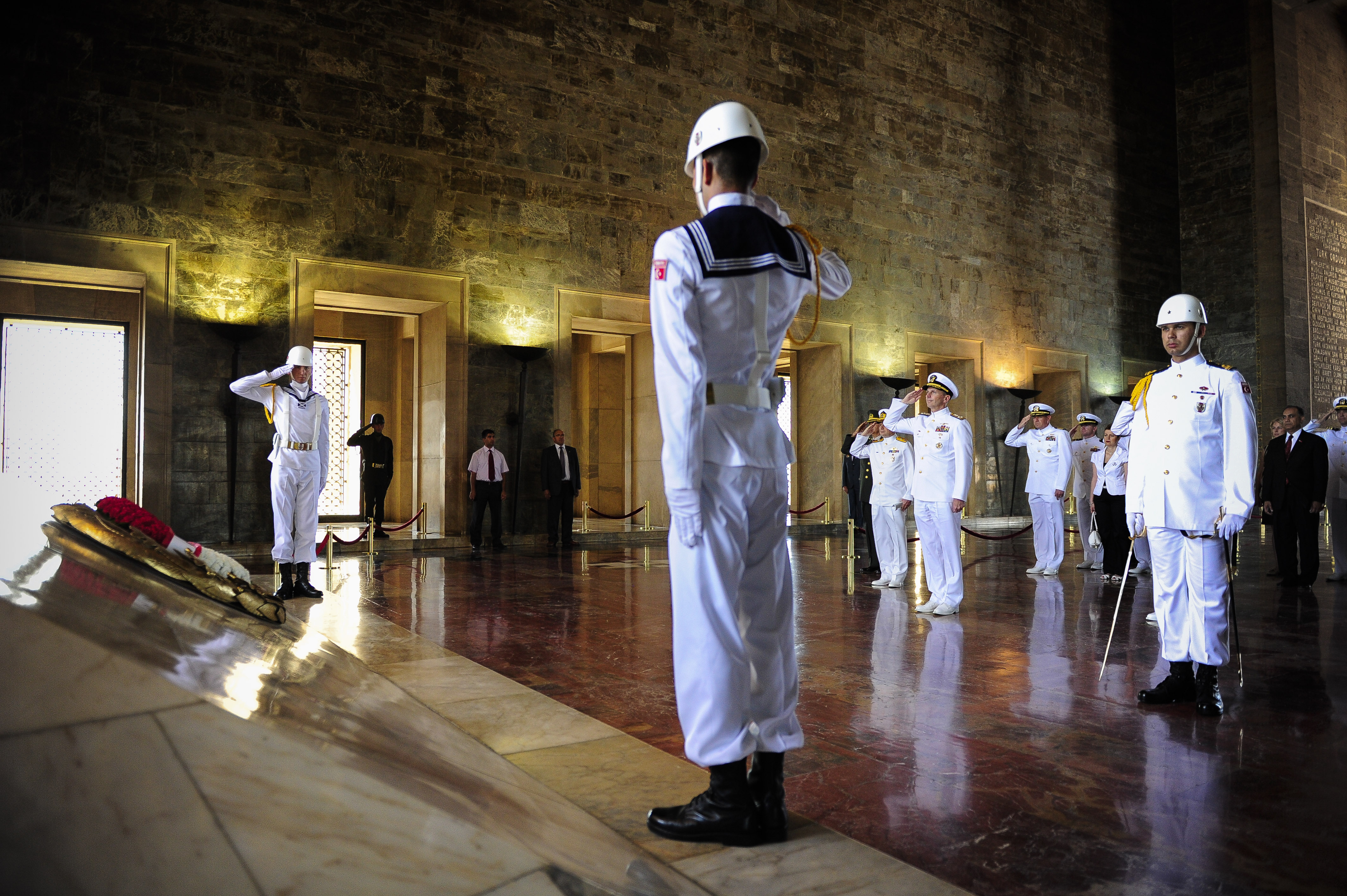 ANKARA, Turkey (June 20, 2012) Chief of Naval Operations (CNO) Adm. Jonathan Greenert salutes a wreath he and Turkish navy honor guard sailors ceremoniously placed in the Hall of Honor at the Anitkabir, monumental mausoleum of Kemal Ataturk. Greenert took part in the wreath laying ceremony while in Turkey to talk with state and military leaders about current and future cooperative efforts. (U.S. Navy photo by Mass Communication Specialist 1st Class Peter D. Lawlor/Released) 120620-N-WL435-114 Join the conversation navylive.dodlive.mil